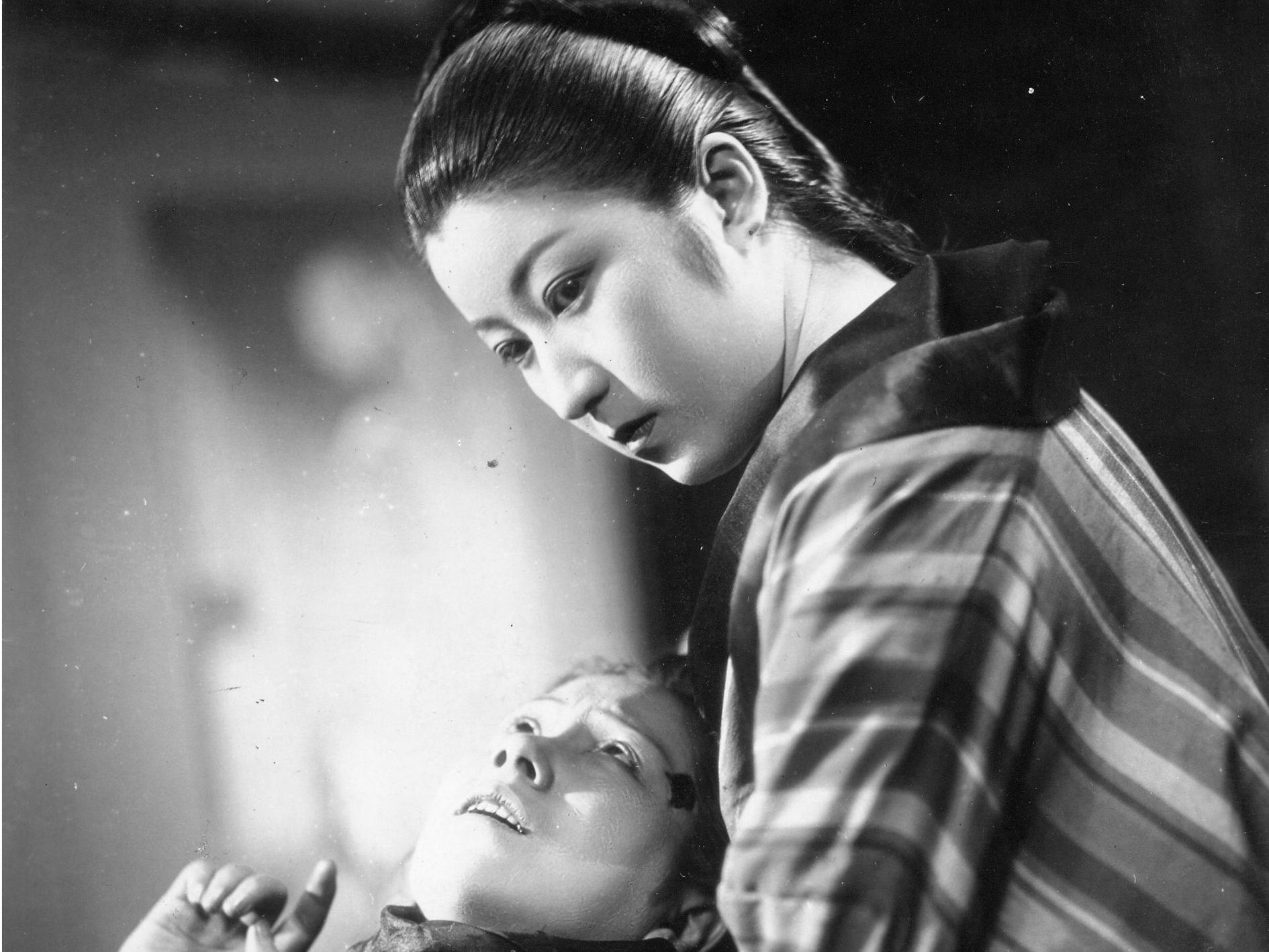 From left to right : Kumeko Urabe (浦辺粂子) and Takako Irie (入江たか子) in Taki no shiraito (滝の白糸) directed by Kenji Mizoguchi - 1933